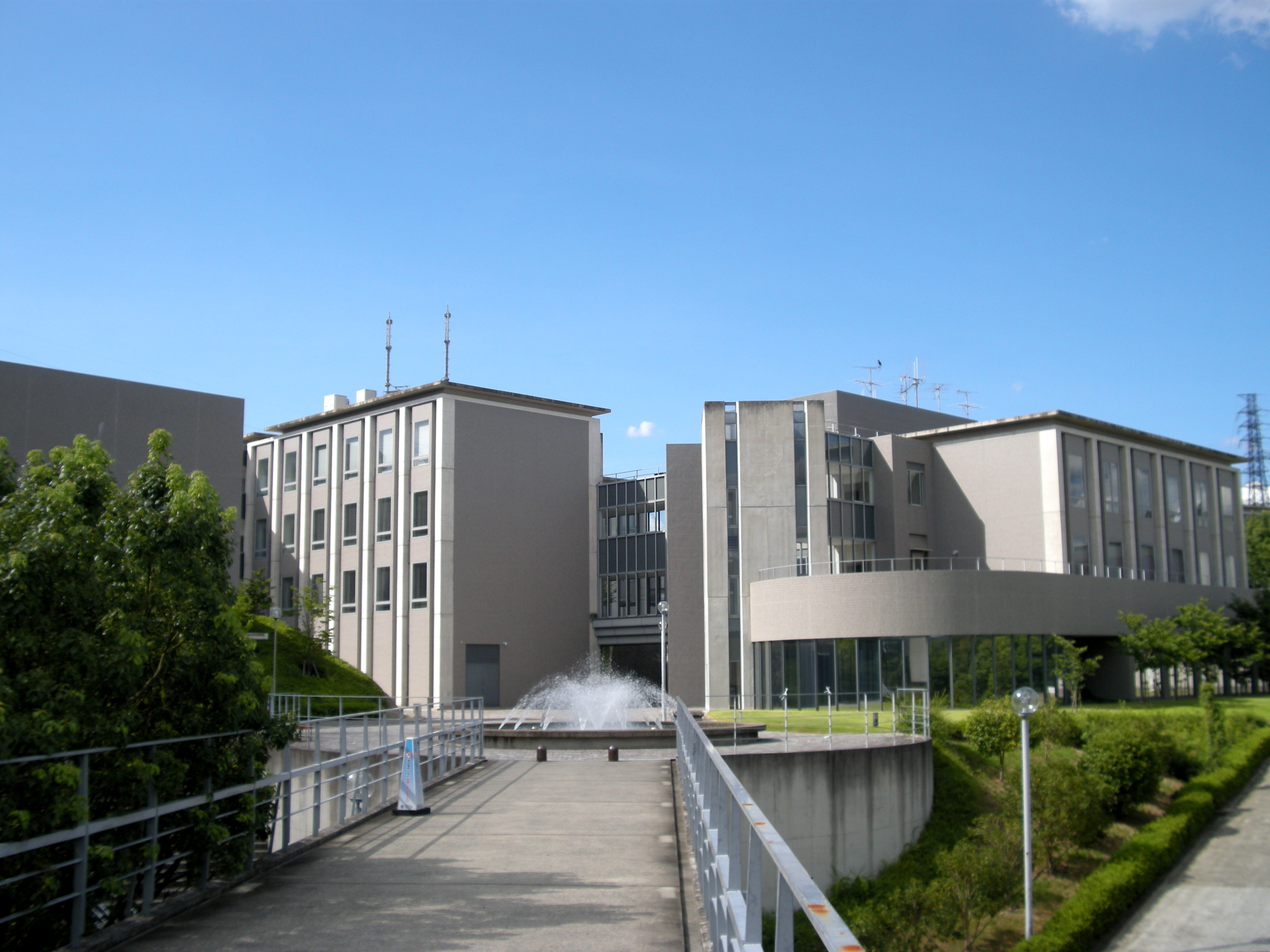 Kansai University (The Faculty of Informatics, Takatsuki, Osaka, Japan)